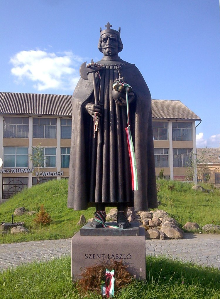 The statue of King Saint Ladislaus of Hungary on the main square of Csíkszépvíz (Frumoasa)